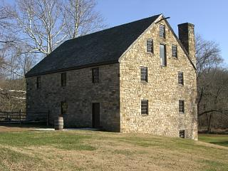 Reconstruction of George Washington's gristmill near Mount Vernon, Virginia